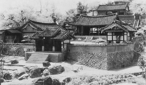 Sungyang Seowon